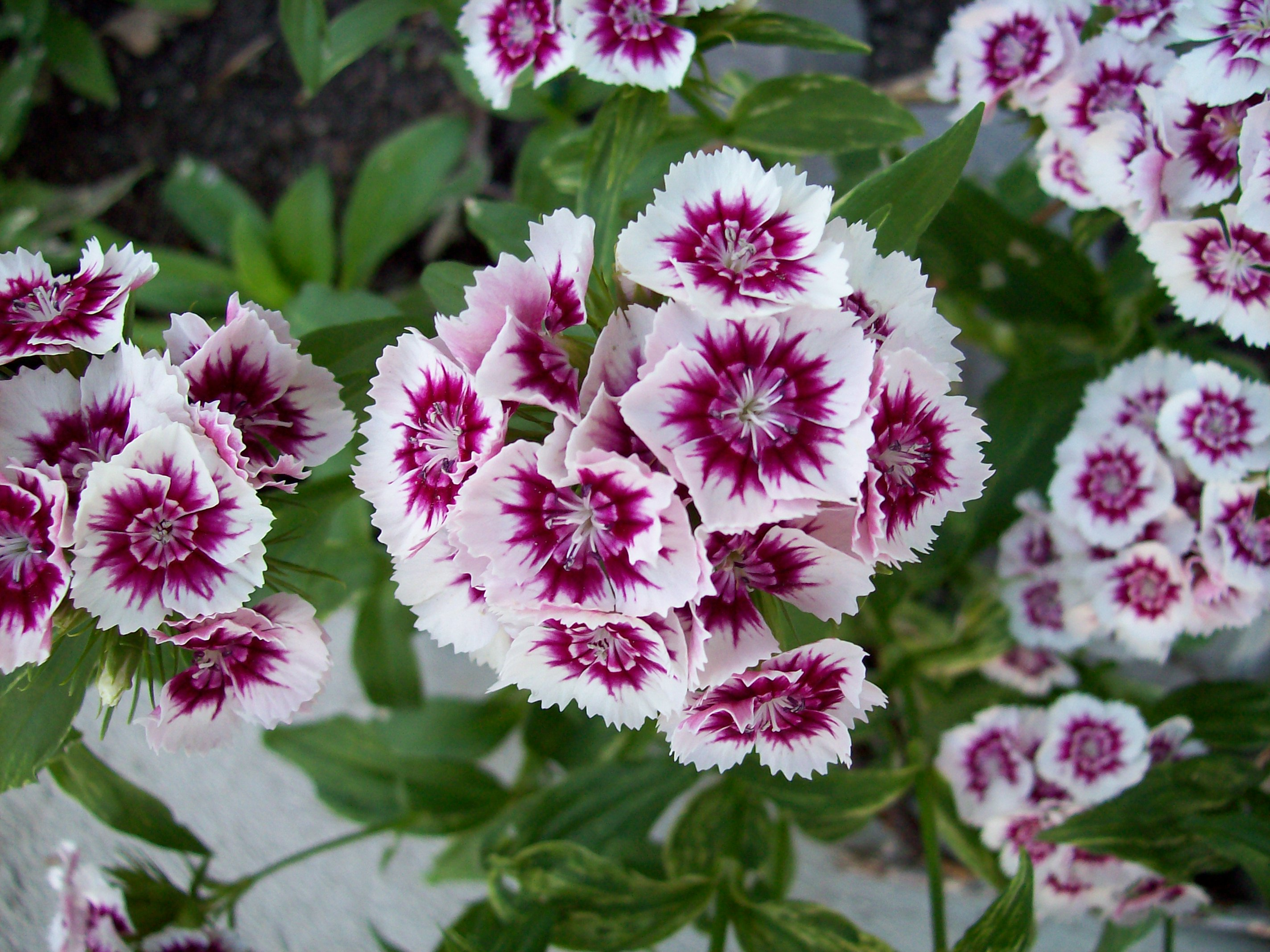 Flowers from my garden. Common name: Sweet William Dwarf. Scientific Classification: Class: Magnoliopsida, Order: Caryophyllales, Family: Caryophyllaceae, Genus: Dianthus, Species: Dianthus barbatus